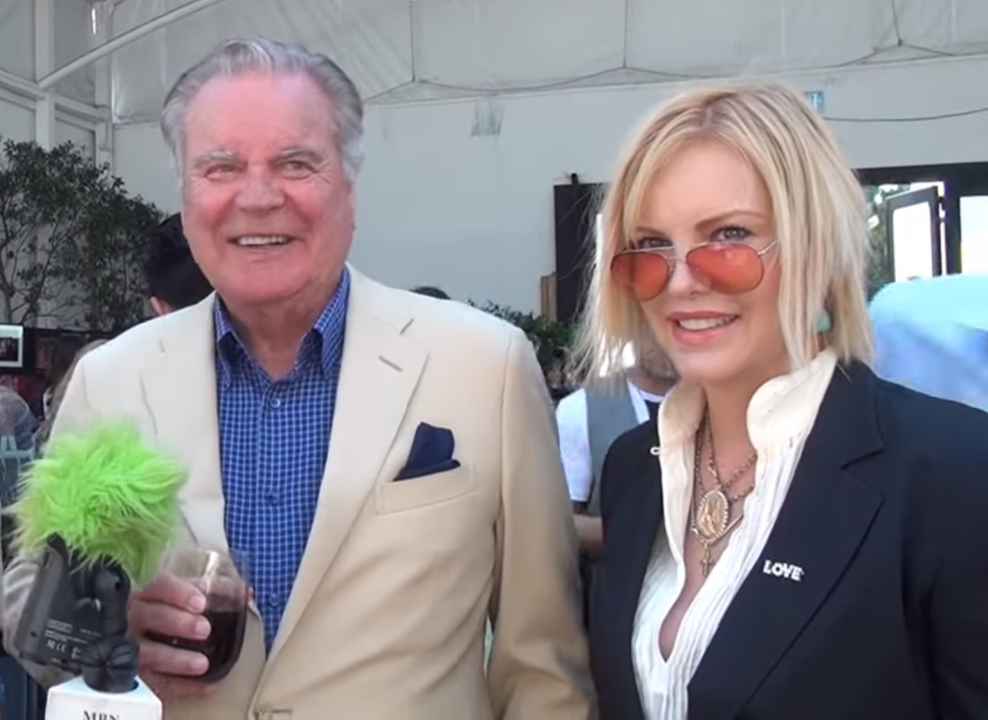 What brings legendary actor Robert Wagner out with his daughter Katie Wagner? Robert and Katie talk about Robert's tv show "NCIS", Paul Newman and racing, Burt Bacharach and writing about old Hollywood. Interview by Sulinh Lafontaine for MBN Newsvideoweb at Doris Bergman's 4th Annual Style Lounge & Party gifting suite in celebration of Emmy® Season.